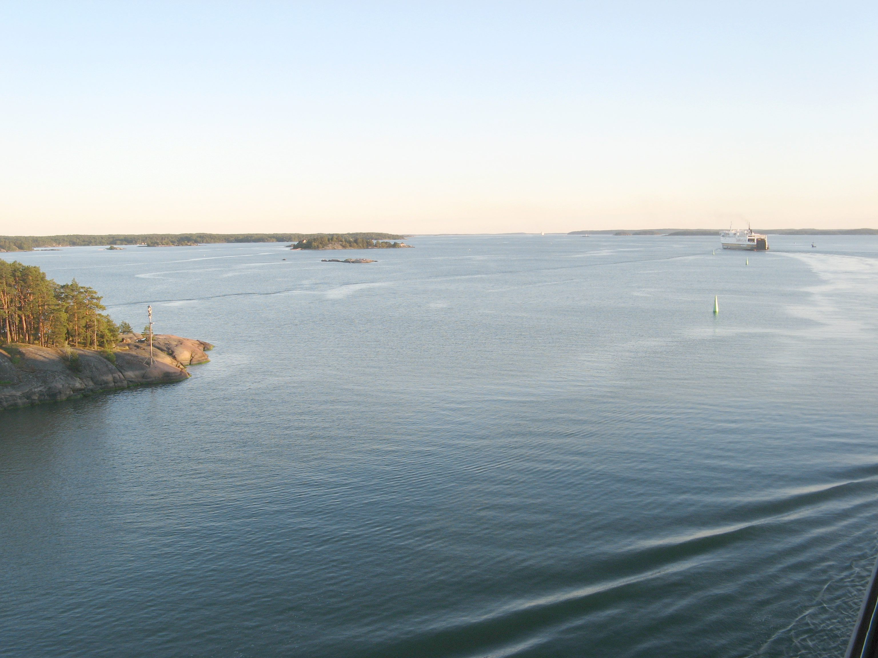 Airisto south of Turku, with ferries on their way to Sweden. Rymättylä on the right, Nauvo far in the south.